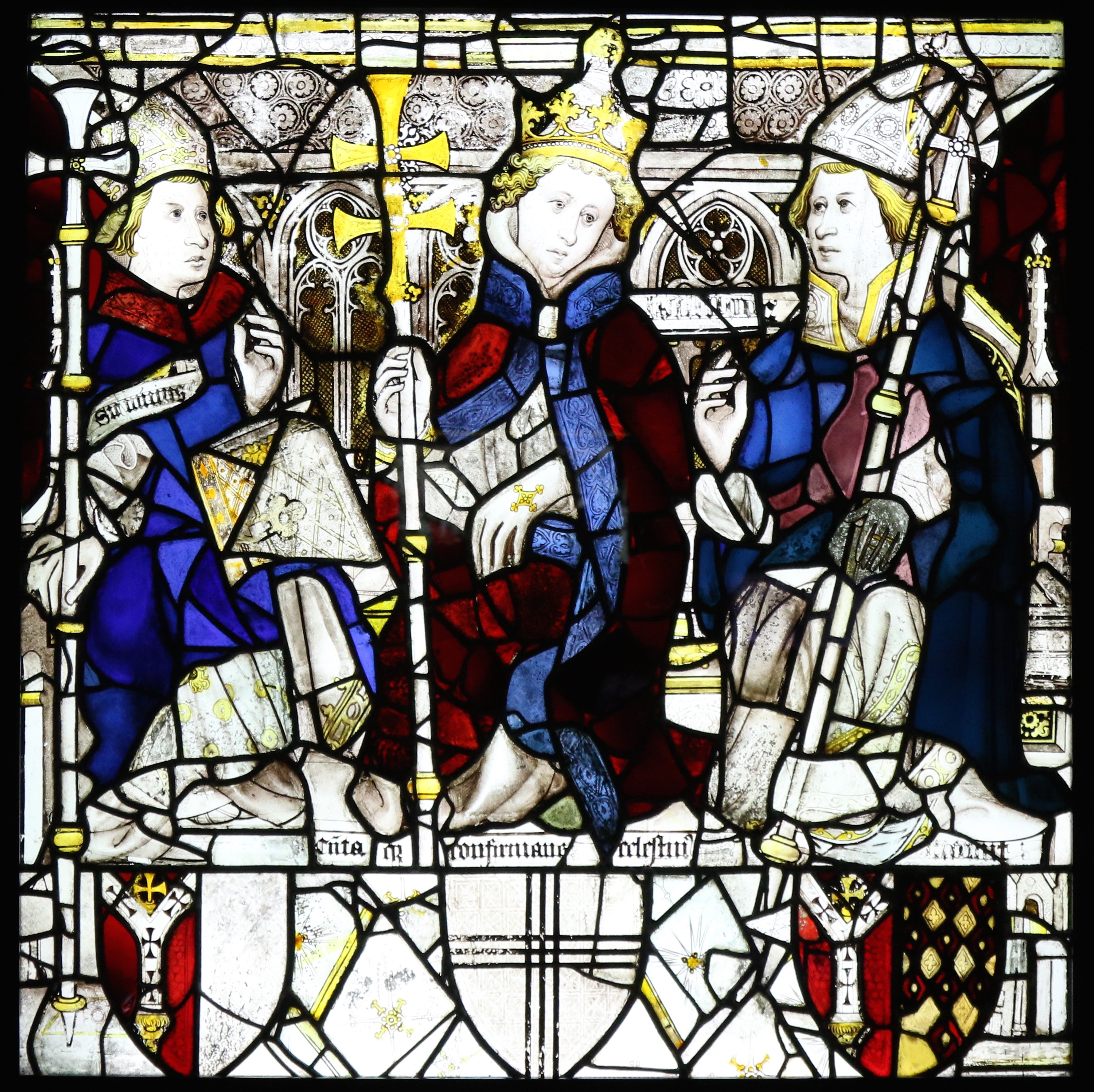 By John Thornton. Pope Celestine, St William and an unidentified Prelate, East Window, York Minster. Arms of Saint William of York (d.1154), twice Archbishop of York: Gules, ten mascles pierced or, 3,3,3,1, impaled by arms of the See of Canterbury, with field gules rather than the usual azure.